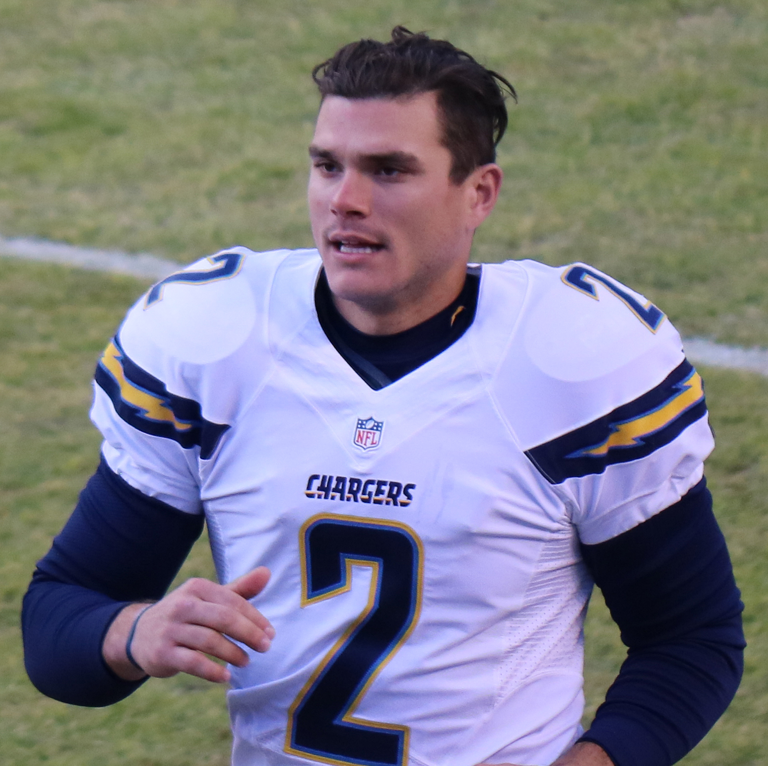 Josh Lambo, a player on the National Football League.